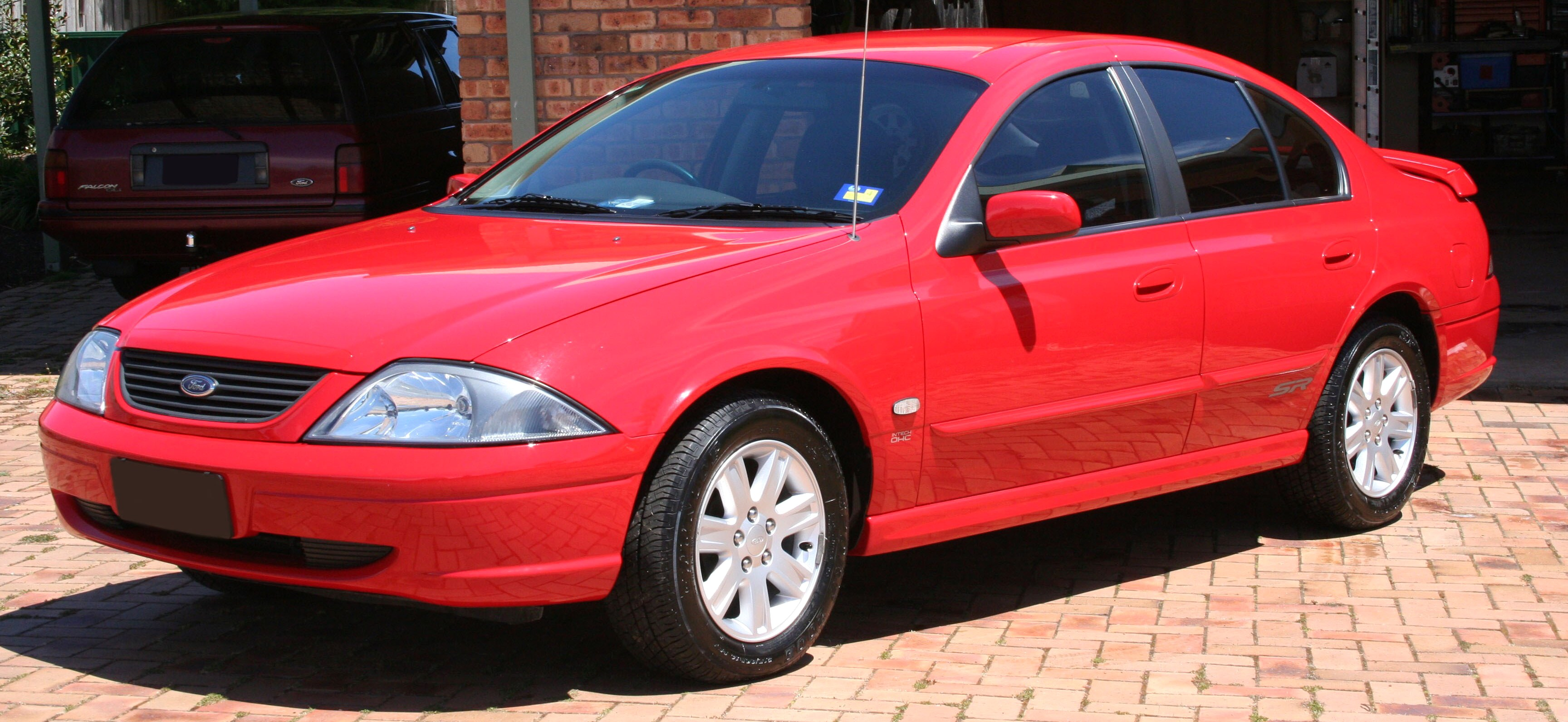 2002 Ford Falcon (AU III) SR sedan. Photographed in Launceston, Tasmania, Australia.